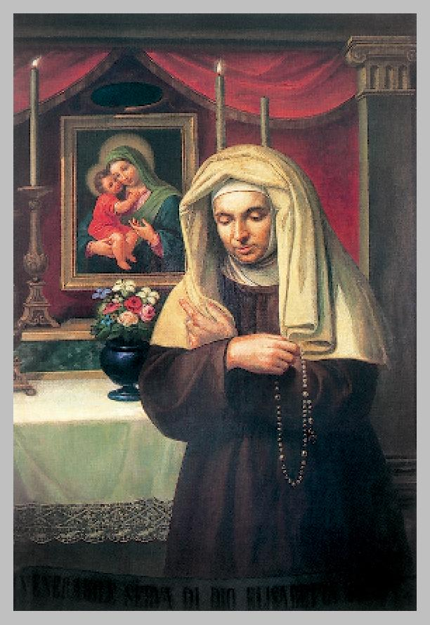 Elisabetta Sanna Porcu in Condrongianos